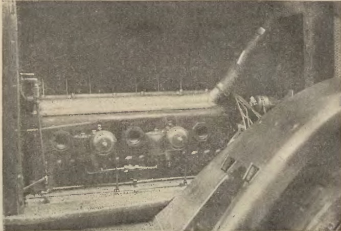 Polish car 1924